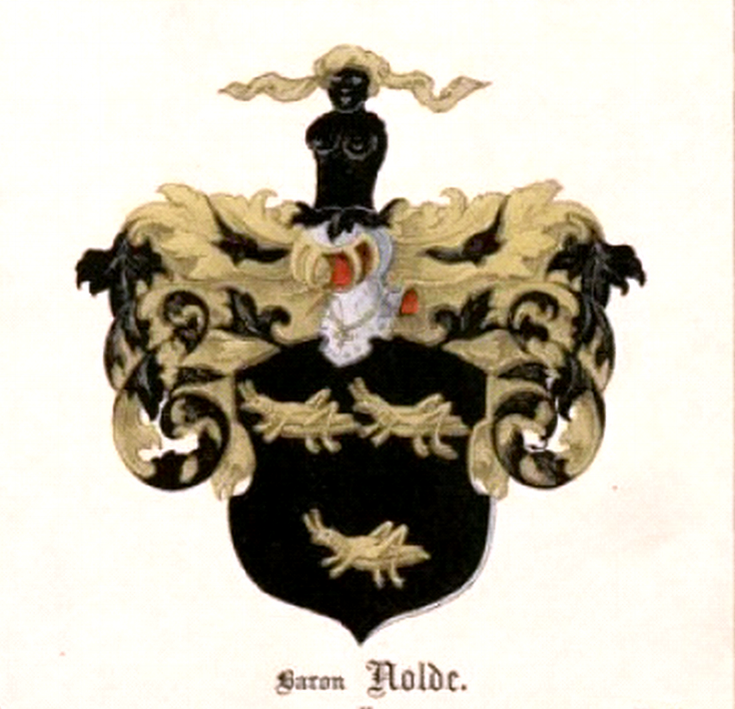 Coat of Arms of Nolde family